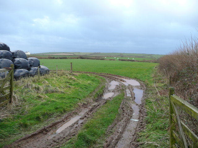 Short cut for the Saints Way To the east of Tremore Farm, a stroll across this field saves a much longer walk on metalled road.